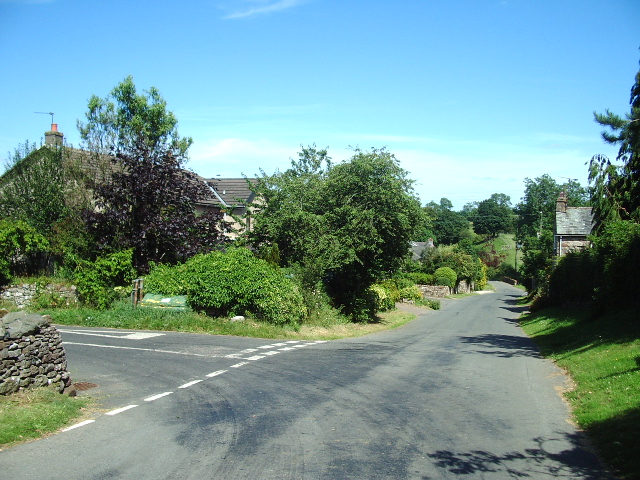 Main street Sleagill. This is the view looking east towards the church, the road on the left goes to Newby Head